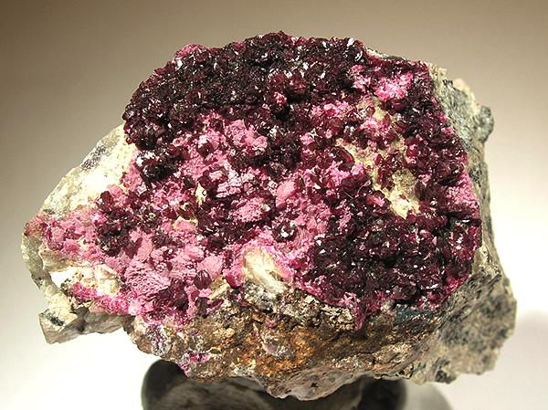 Spherocobaltite, Erythrite Locality: Kakanda North Mine, Kakanda deposit, Kambove, Central area, Katanga Copper Crescent, Katanga (Shaba), Democratic Republic of Congo (Zaïre) (Locality at ) An extremely rich specimen with individual, isolated crystals of Spherocobaltite to several mm in size against a carpet of lavender erythrite (fibrous, hairy microcrystals). This specimen presents an aesthetic quality very rare for the material. Old Gilbert Gauthier specimen, to Bill Smith. 6 x 4 x 4.4 cm